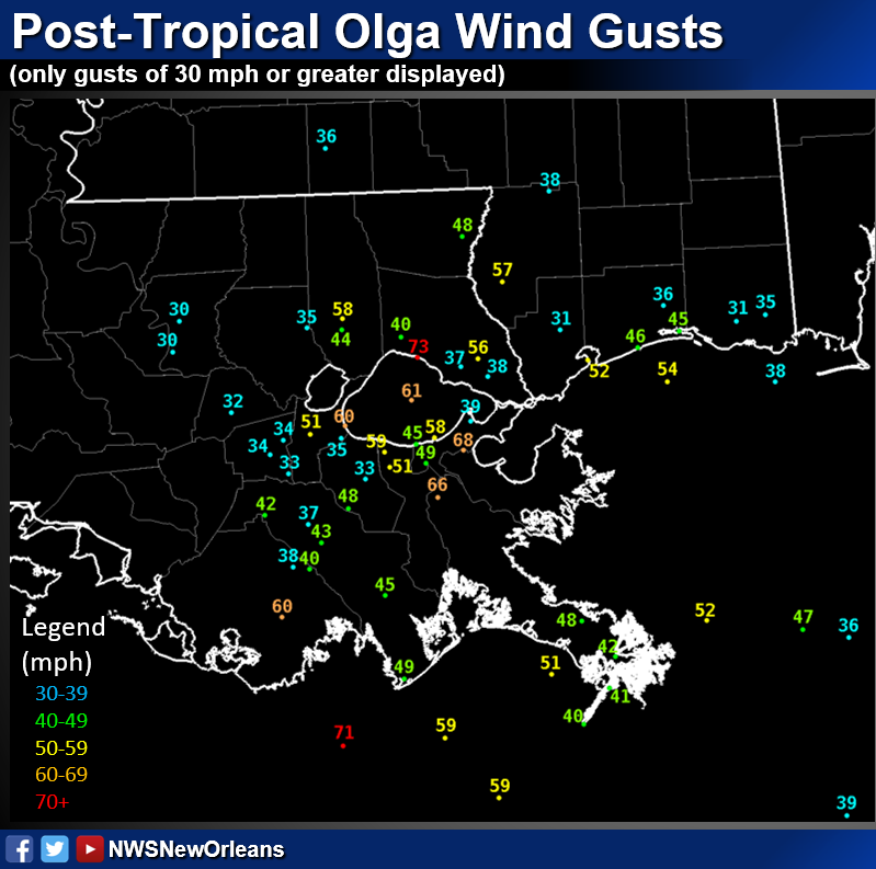 Select maximum wind gusts throughout southeastern Louisiana and southern Mississippi, encompassing the county warning area of the National Weather Service New Orleans weather forecast office